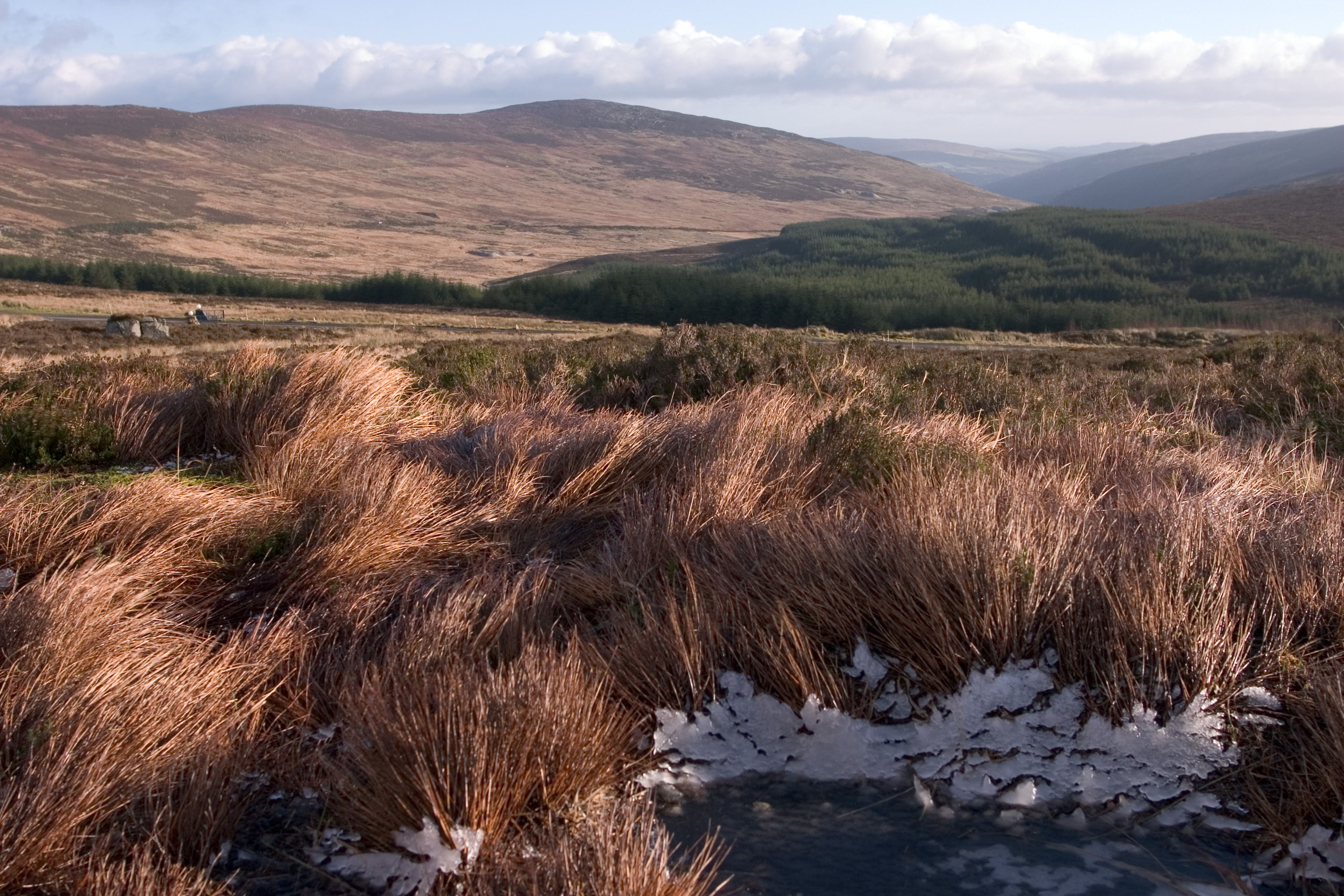 Wicklow mountains, Ireland